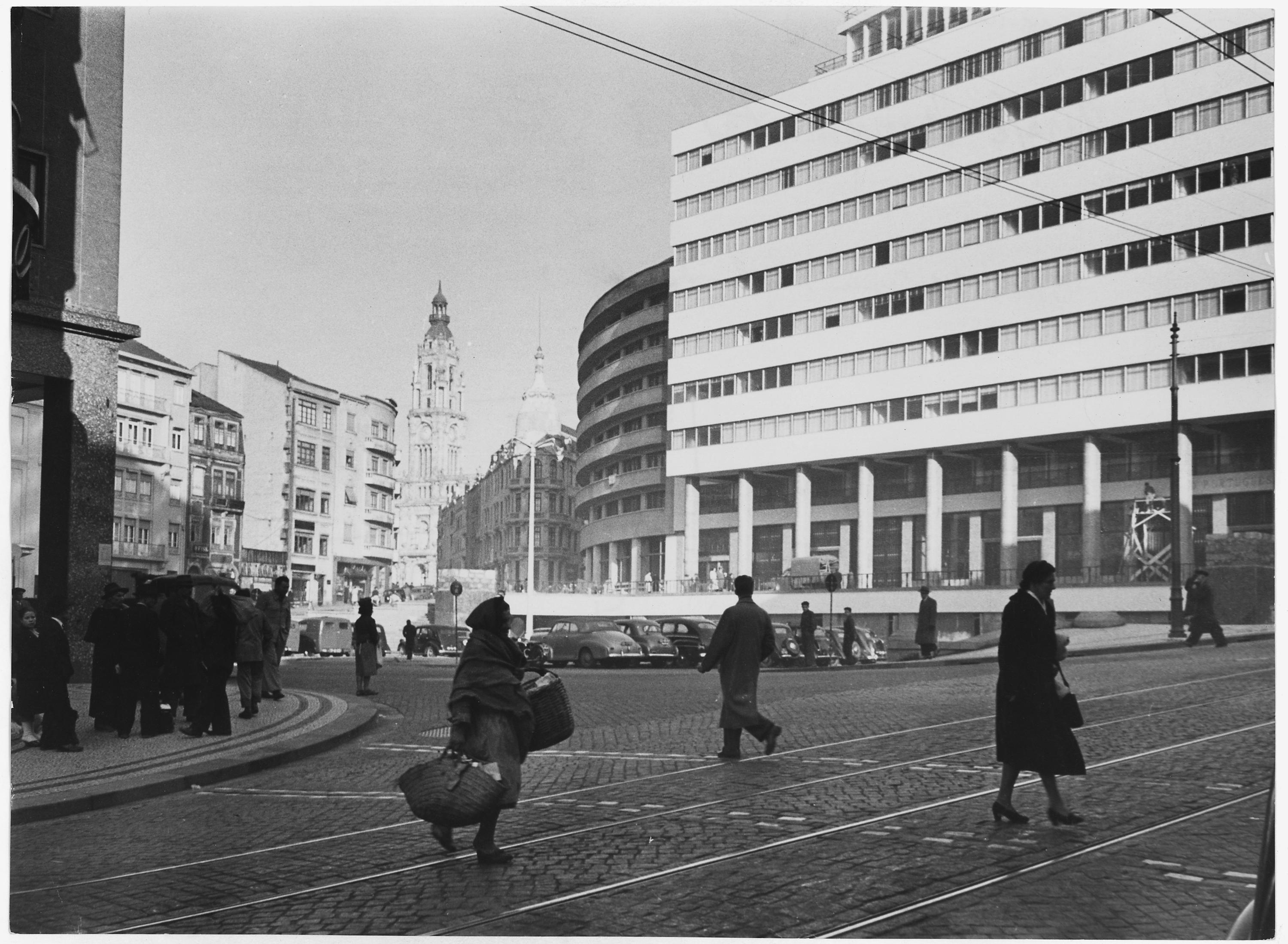 Oporto, Portugal. Oporto street scene, in the plaza of D. João I. The old city is represented in this picure by the bell tower in background, and street peddlers with baskets - in contrast to the new buildings, modern cars, street railways